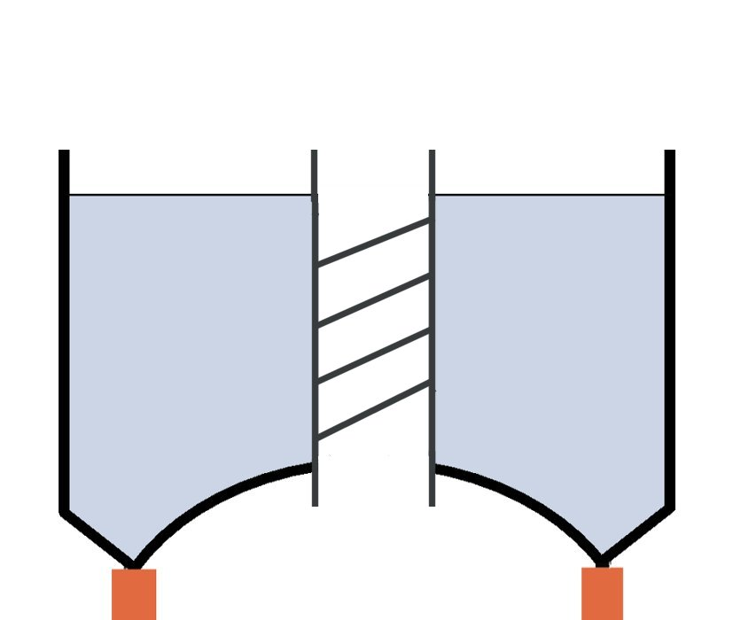 Intze-1-tank in water towers